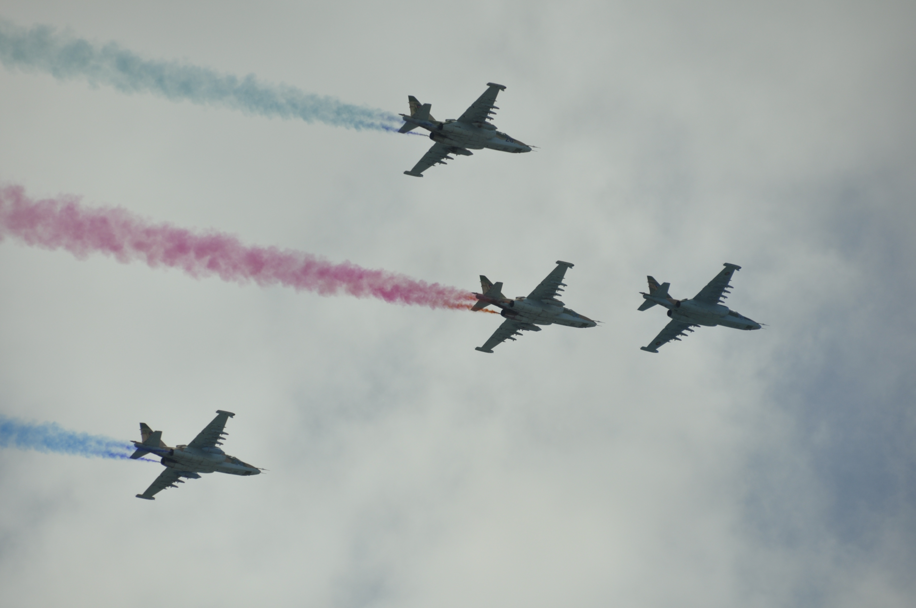 Military parade in Baku on an Army Day